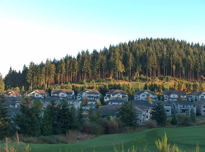 Urban development at Westwood Plateau in Coquitlam, B.C., and Ridge Park